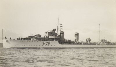 HMS Decoy pre-1939.